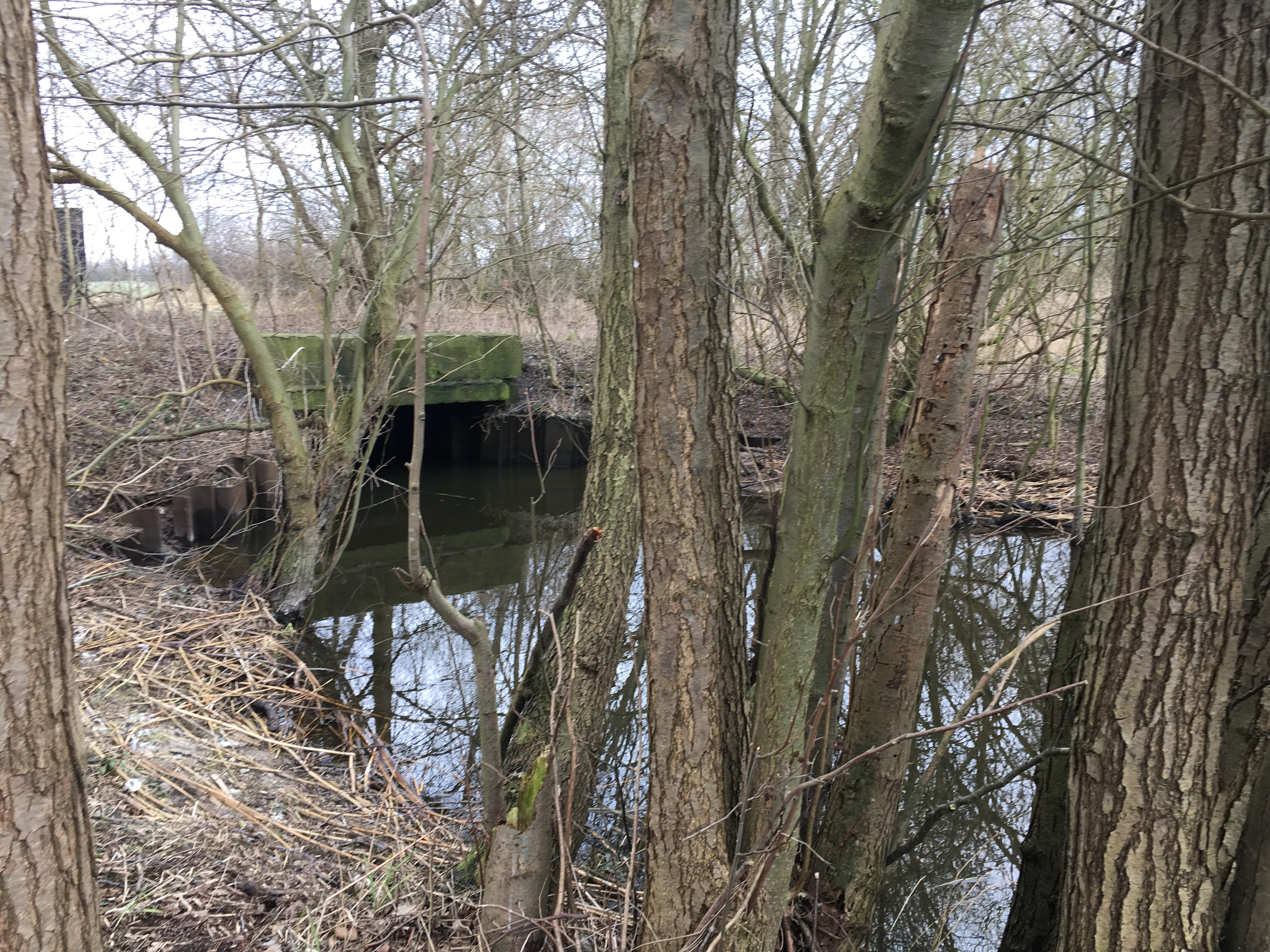 Mechower See